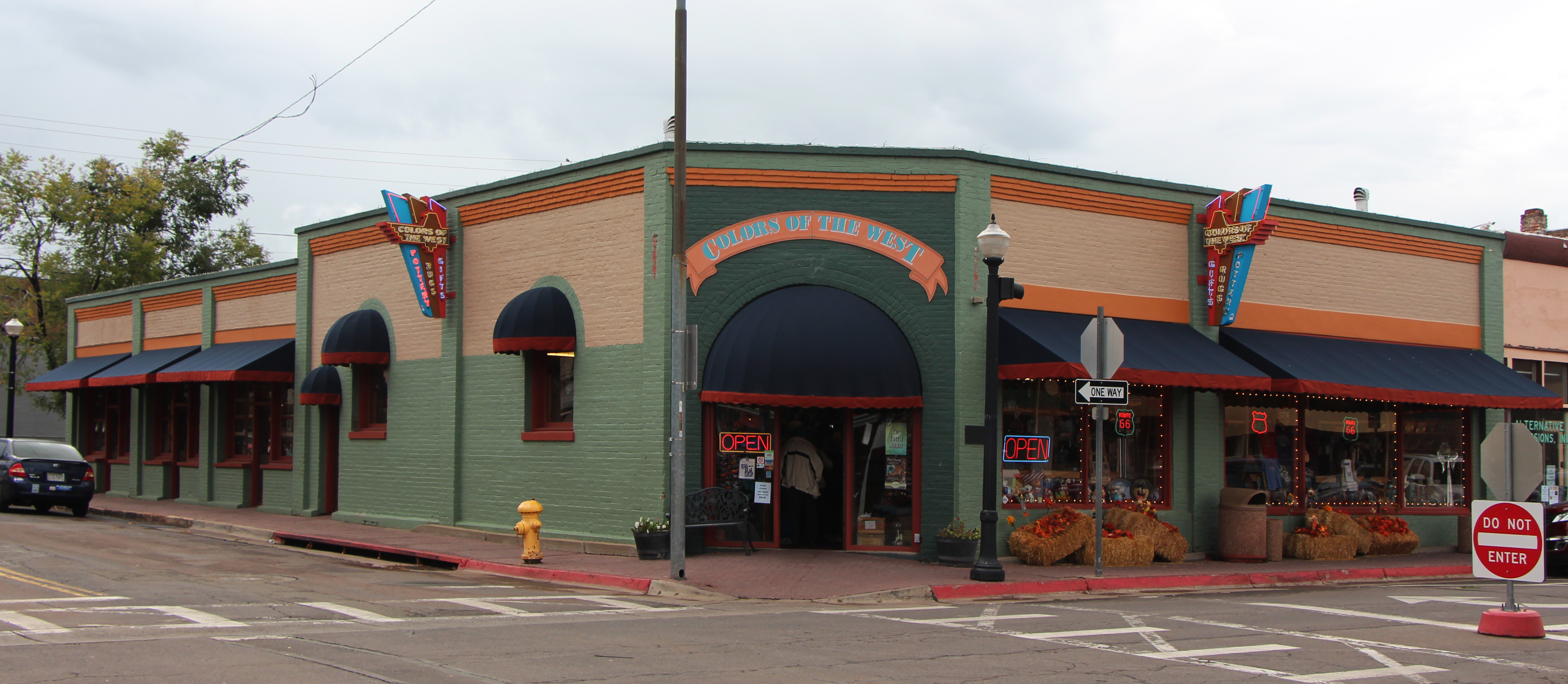 Duffy Brother's Grocery Store, 201 W. Route 66, Williams, AZ